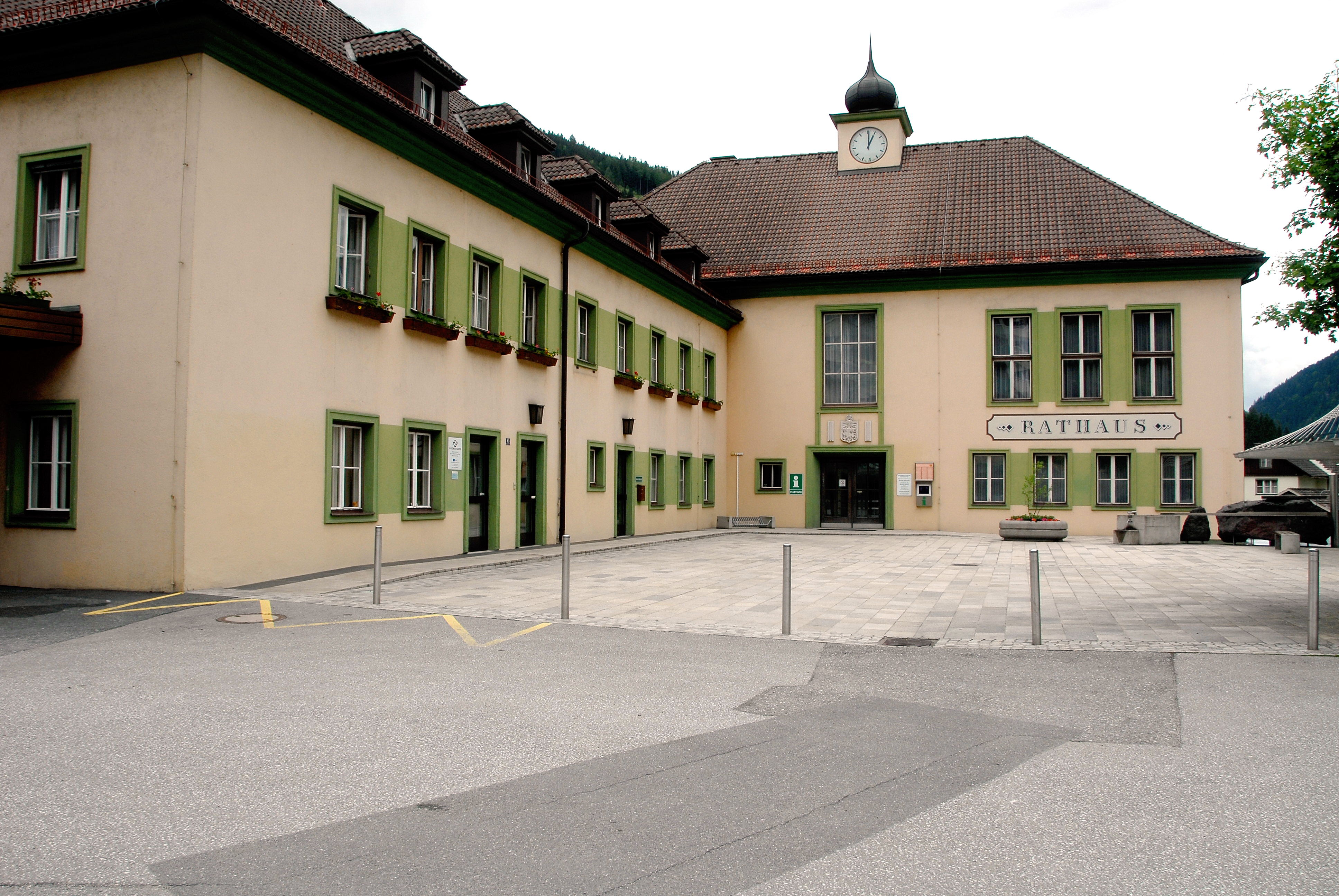 City hall in Radenthein, district Spittal an der Drau, Carinthia, Austria